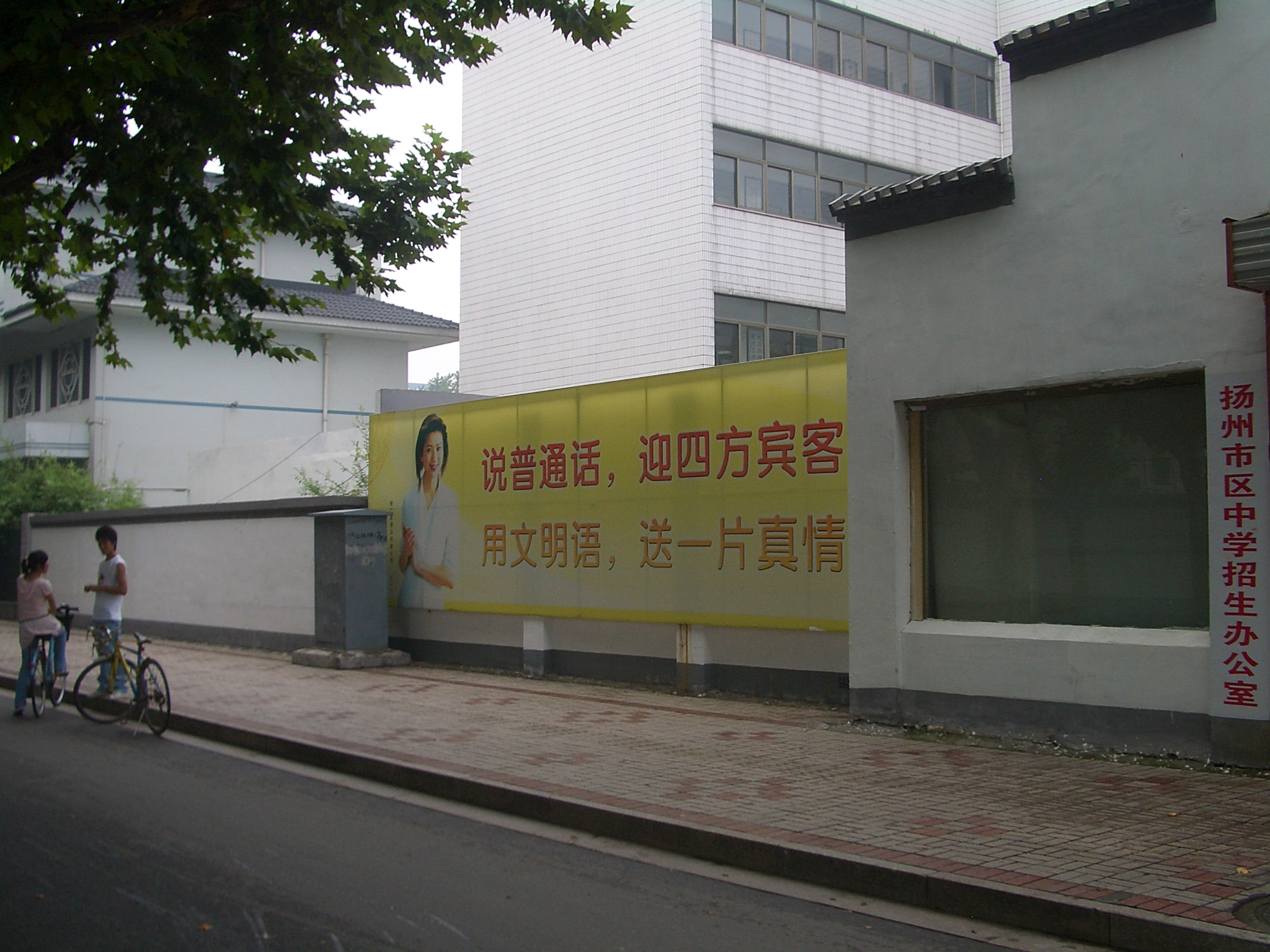 Outside of a High School in Yangzhou, Jiangsu. The sign near the door says "Yangzhou Urban Area High School Admission Office". The poster on the fence says something like, "Speak Standard Mandarin, welcome guests from all parts. Speak politely, send a true message"